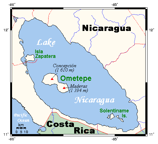 Map showing Ometepe in Lake Nicaragua. This map's source is here, with the uploader's modifications, and the GMT homepage says that the tools are released under the GNU General Public License. From Wikipedia en